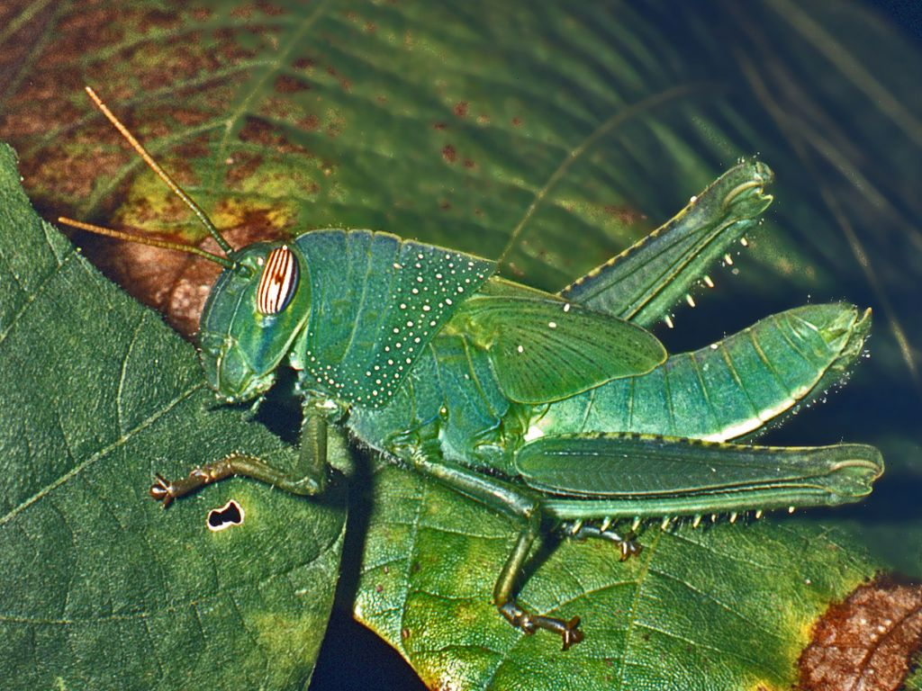 A. aegyptium